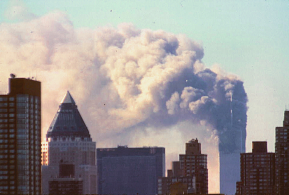 The north tower (1 WTC) of the World Trade Center after the September 11 attacks in New York, New York, United States. By this time, the south tower (2 WTC) had already collapsed.